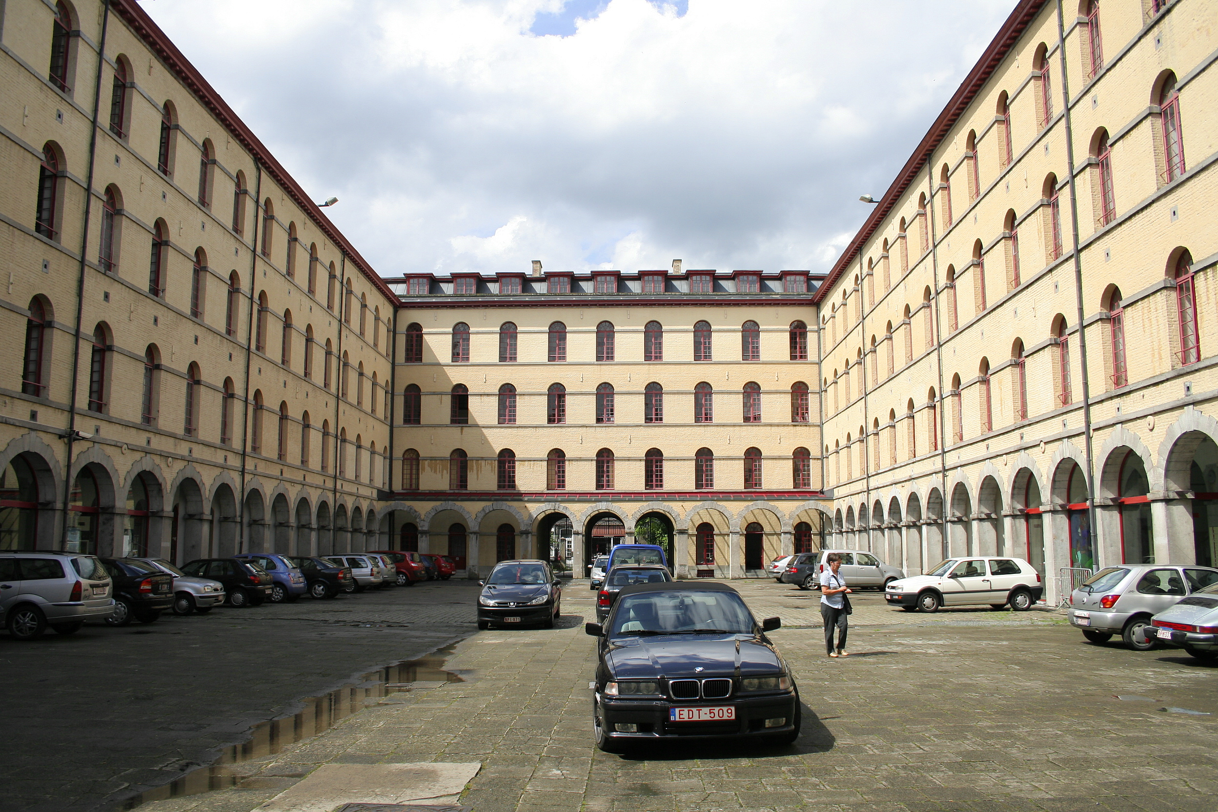 Mons (Belgium), rue des Sœurs-Noires. – The former « Guillaume » or « Major Sabbe » barracks and presently the Mons Culture Center, also called « Carré des Arts » (1824-1827).